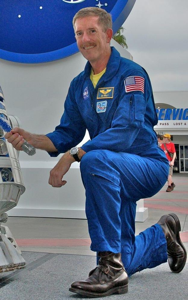 Astronaut Jim Reilly helped welcome R2-D2 and Luke Skywalker's lightsaber from Star Wars to the Kennedy Space Center. The lightsaber is being taken into space aboard the real-life spacecraft Discovery during mission STS-120.